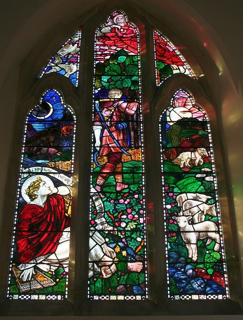 West Window, Hook Church The "Good Shepherd" window by Henry Payne. Dedicated to George William Grice-Hutchinson of the Boynes, who was born on the 27th april 1848 and died on the 18th May 1906. The window was restored in memory of Constance Grice Hutchinson (25 June 1885 - 14 April 1963). A mix of a typical English country scene, with lambs and a stream, but with lions behind the wicker fence and a biblical king complete with what appears to be a zither. The quotation "O Lord How Manifest Are Thy Works" is from verse 24 of Psalm 104 in the King James Bible.